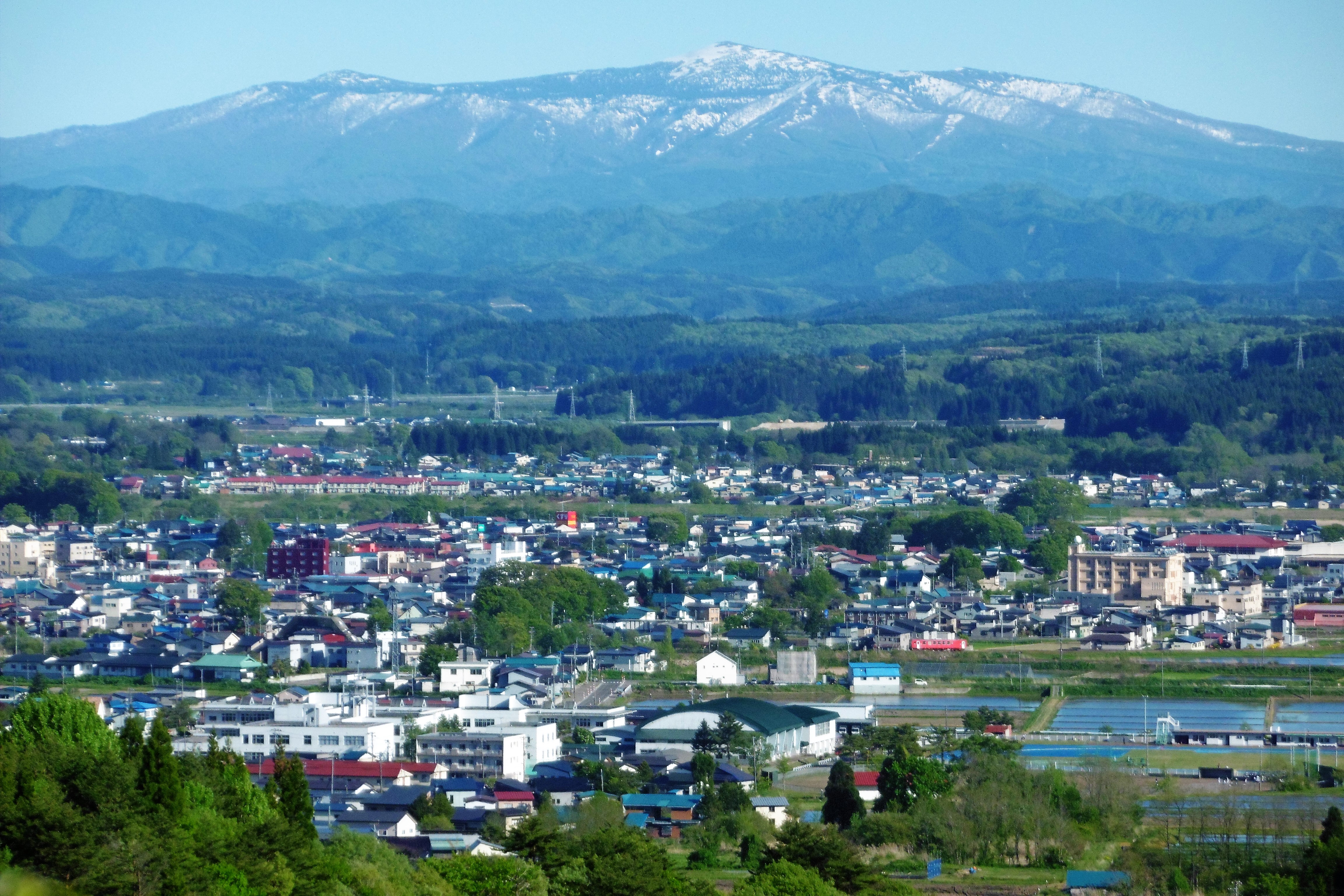 Mount Moriyoshi seen from the NNW.